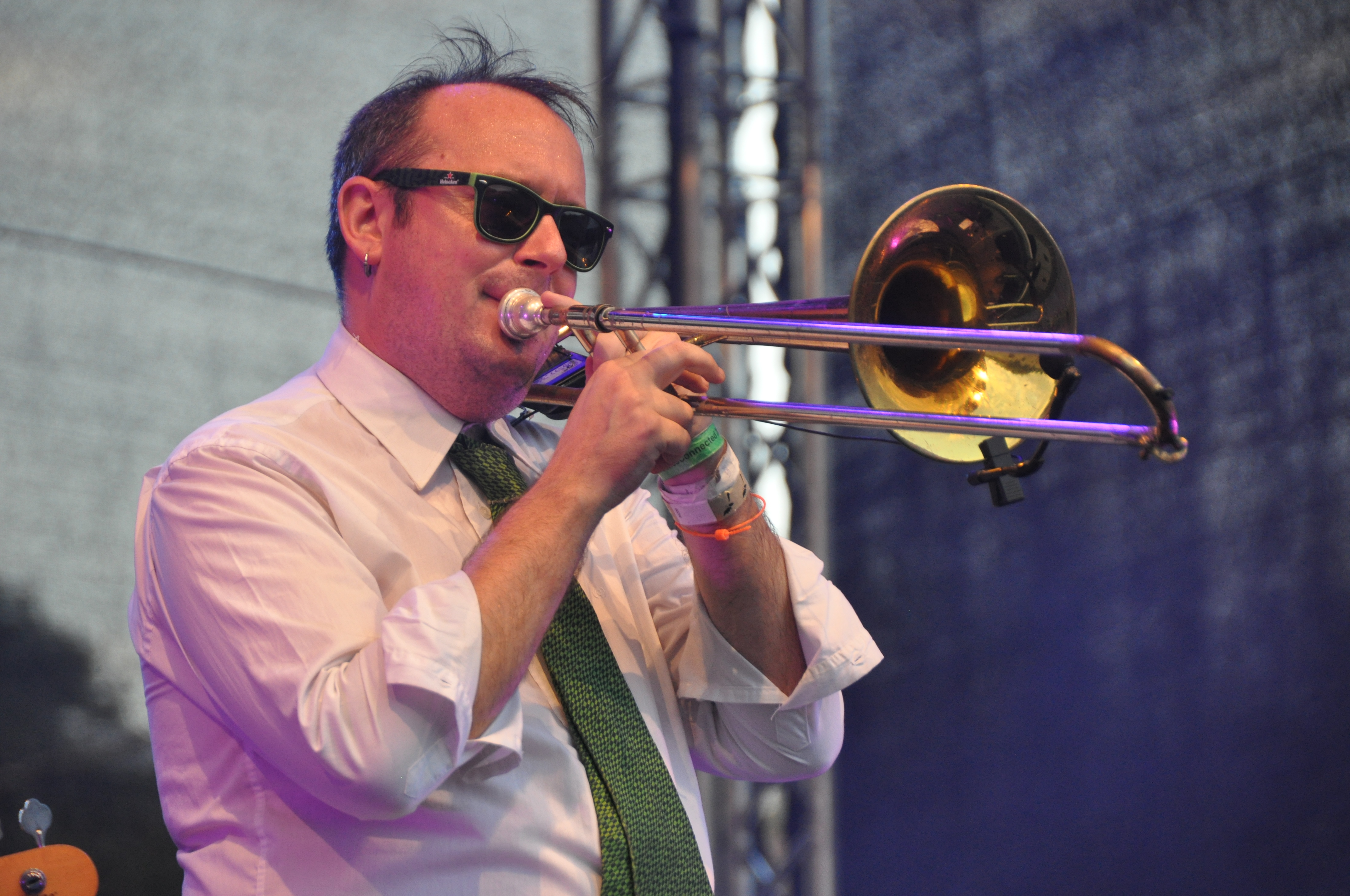 Rosario Smowing (AR), appearance at the 12th World Music Festival "Horizonte" 2014 at the fortress of Ehrenbreitstein, Koblenz (Germany)